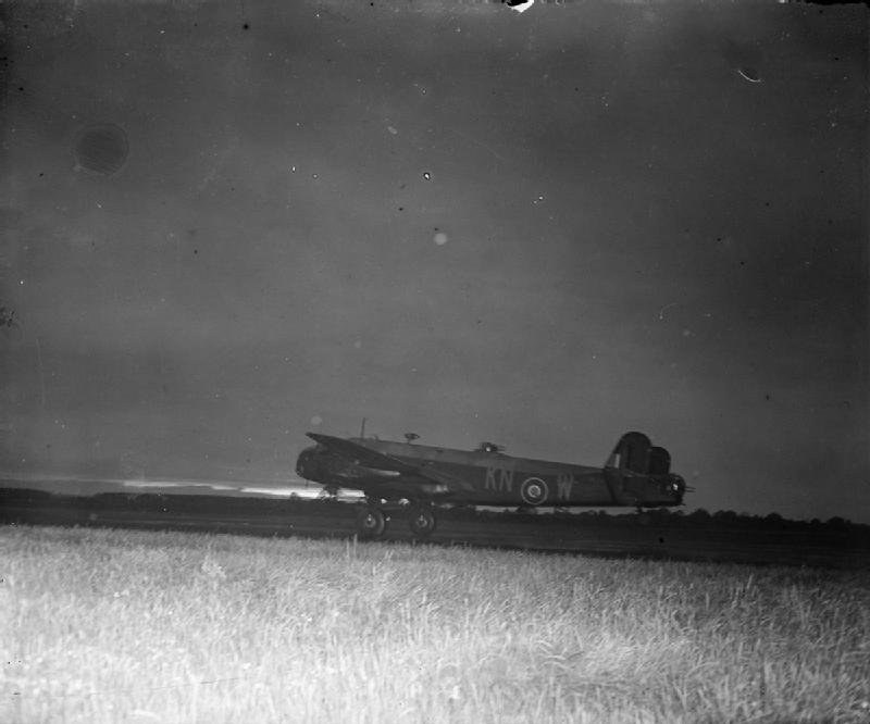 Royal Air Force Bomber Command, 1942-1945. Handley Page Halifax B Mark II Series I (Special), JB781 'KN-W', of No. 77 Squadron RAF gathers speed on the runway at Elvington, Yorkshire as it takes off for a bombing raid on Dusseldorf, Germany. This was the first occasion on which more than 200 Halifaxes took part in a raid, of which 12 were lost. Extensive damage was caused to the centre of Dusseldorf, which suffered its most destructive attack of the war. The aerial of the 'Monica' tail-warning radar can be seen protruding below the rear turret of JB781.